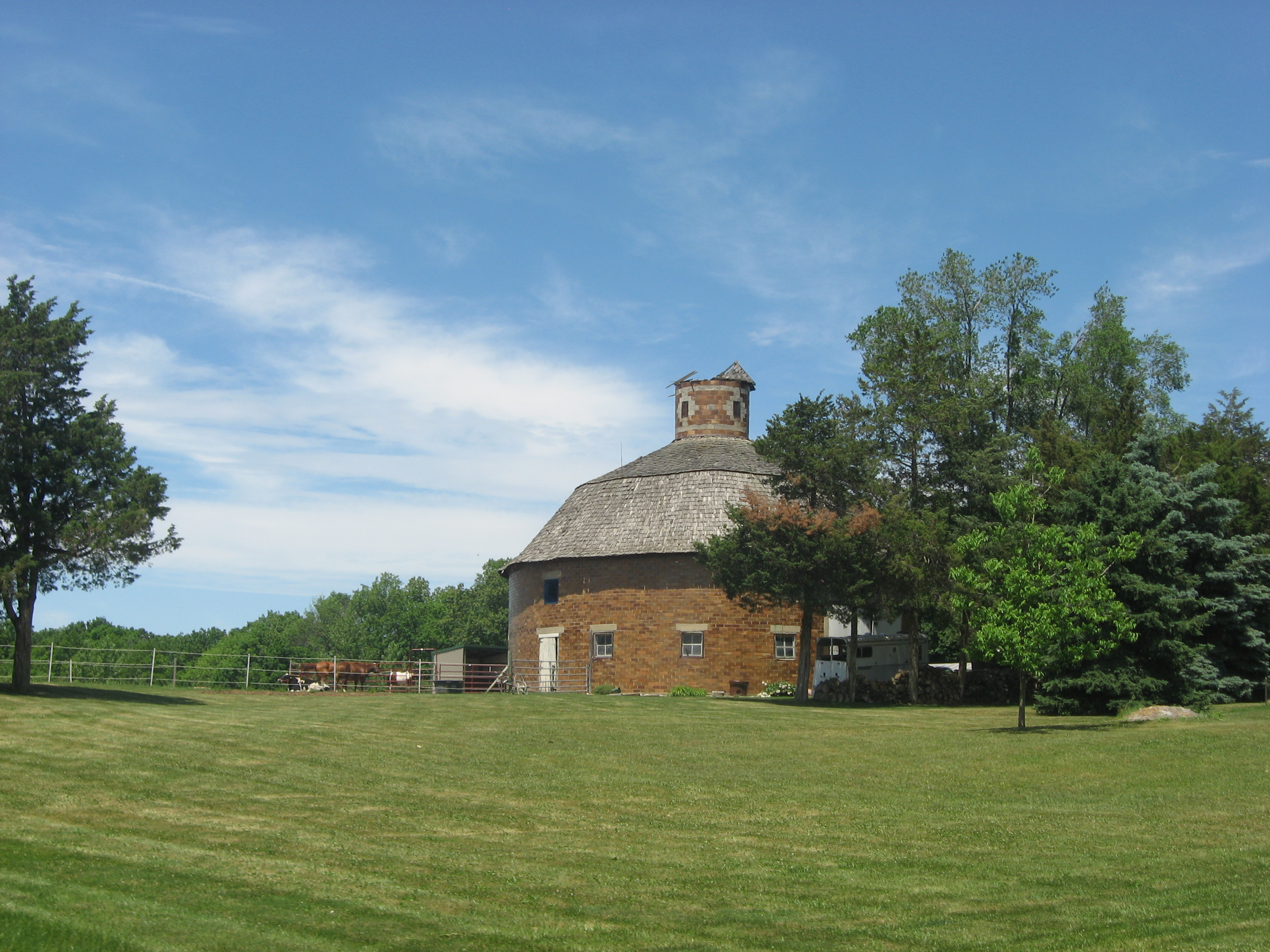 View from the southeast of the Cornish Griffin Round Barn, located at 2015 SW Fox Lake Road north of Pleasant Lake in Steuben Township, Steuben County, Indiana, United States. Built in 1915, it is listed on the National Register of Historic Places.